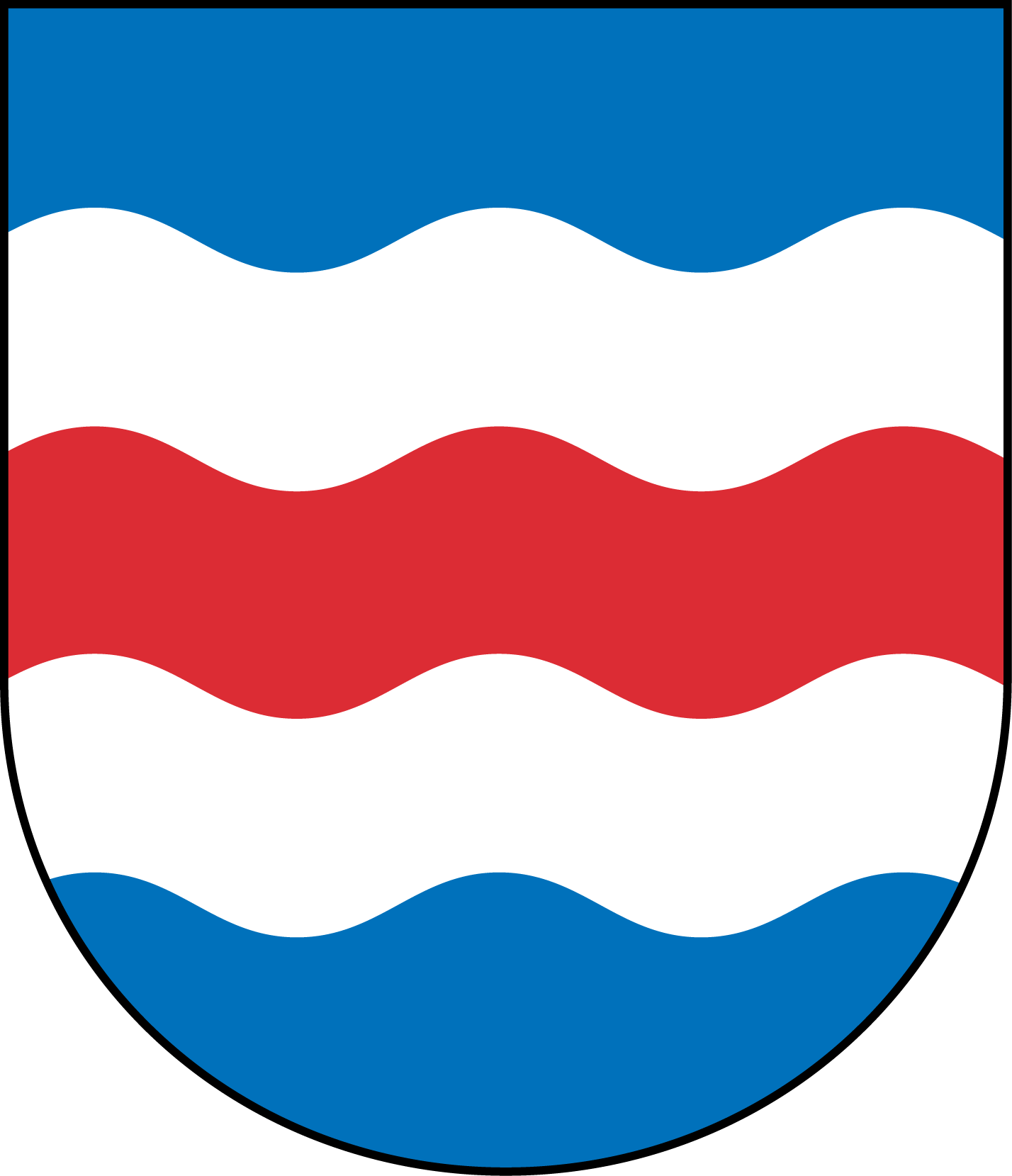 Coat of arms of the province of Medelpad, Sweden. Painted by Vladimir A. Sagerlund when he was the heraldic artist at the National Archives of Sweden (Riksarkivet). This representation of a coat of arms is potentially different from the one used by the armiger (municipality or organisation) in question. = ⇑“Sable, a lionrampant or” This coat of arms was drawn based on its blazon which – being a written description – is free from copyright. Any illustration conforming with the blazon of the arms is considered to be heraldically correct. Thus several different artistic interpretations of the same coat of arms can exist. The design officially used by the armiger is likely protected by copyright, in which case it cannot be used here.Individual representations of a coat of arms, drawn from a blazon, may have a copyright belonging to the artist, but are not necessarily derivative works. Further information: Commons:Coats of arms and Template:Coa blazon